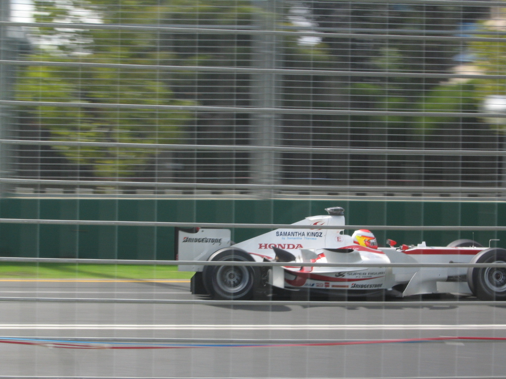 Japanese driver Yuji Ide drove his Super Aguri F1 SA05 at 2006 Australian Grand Prix, from en.Wiki